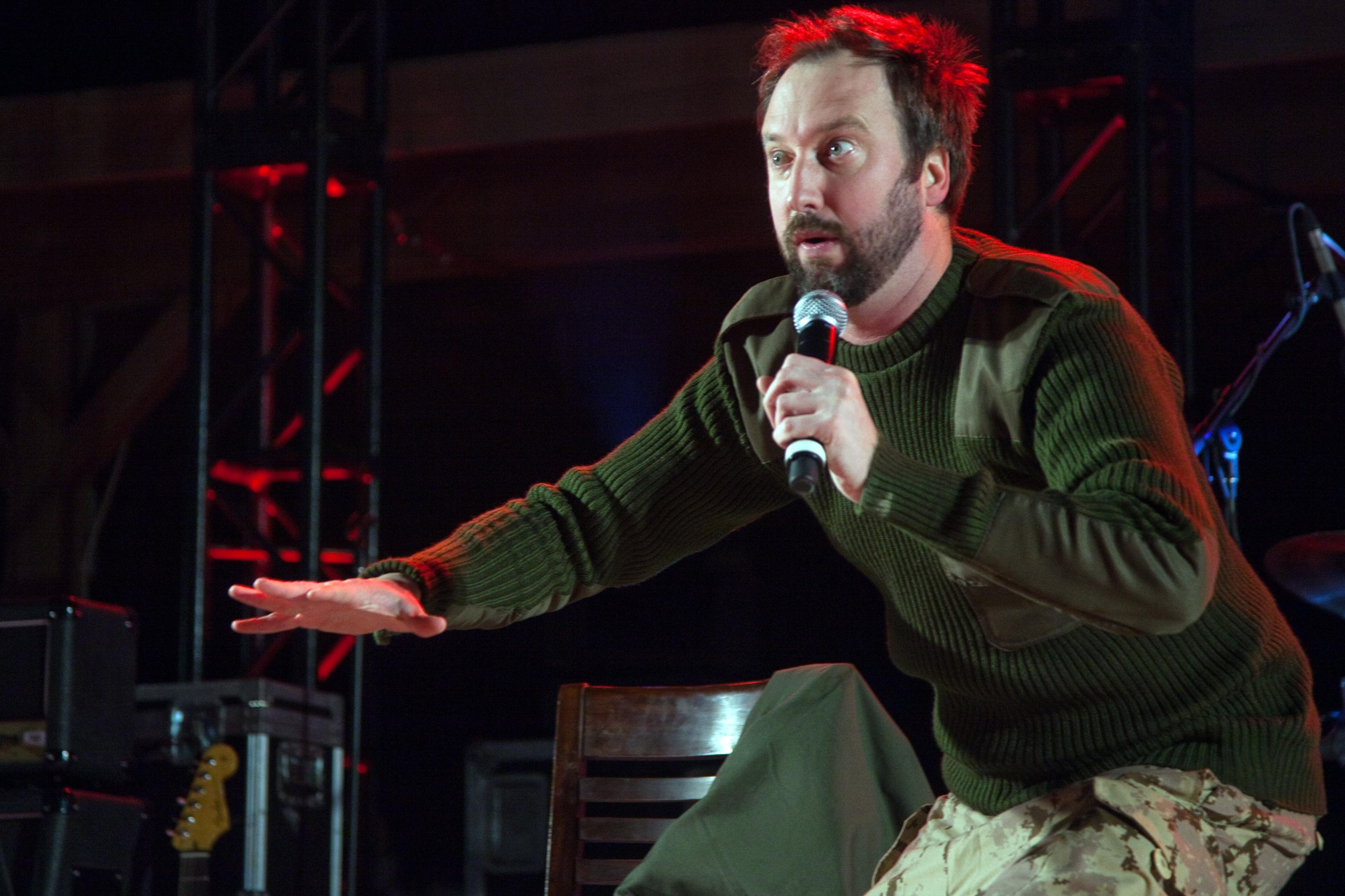 Canadian native Tom Green performs a live comedy show for military personnel at Kandahar Airfield, Afghanistan, March 5, 2011. The comedy show is part of the Canadian Army's effort to increase morale and welfare for troops in Kandahar.